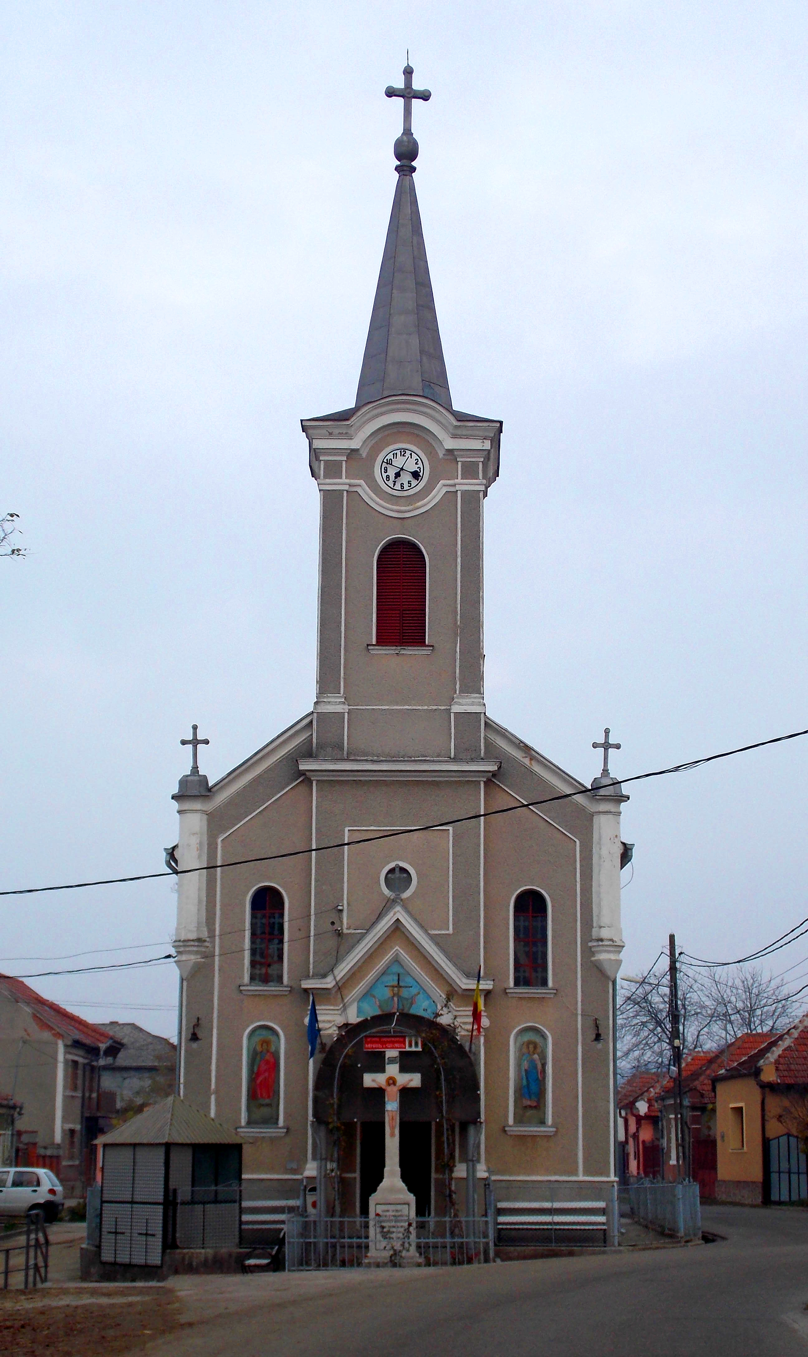 Orthodox Church - HaieuRomână: Biserica Ortodoxă "Nașterea Maicii Domnului" - Haieu (Bihor)